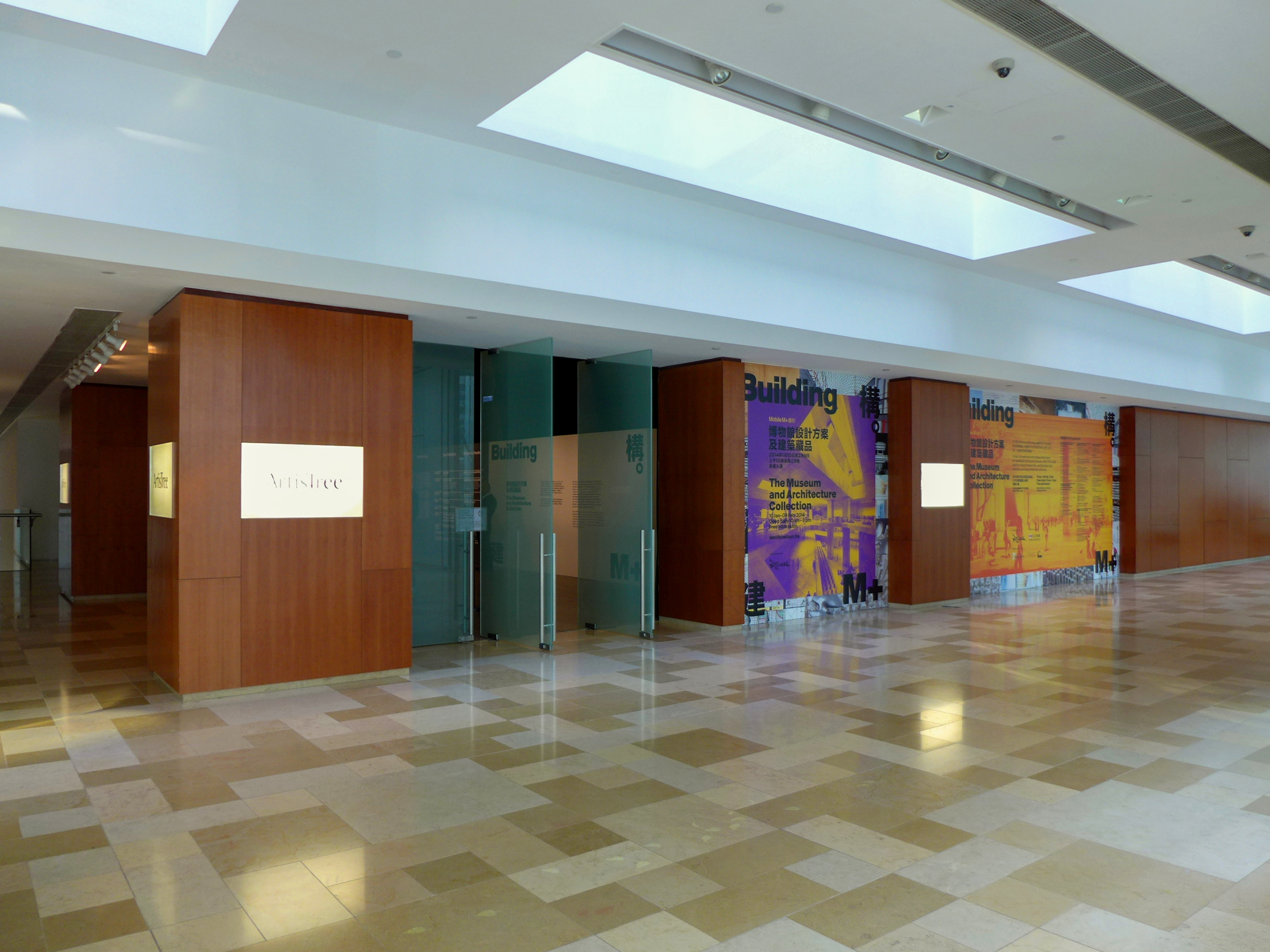 Cornwall House ArtisTree